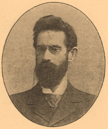 Illustration from Brockhaus and Efron Encyclopedic Dictionary (1890—1907)